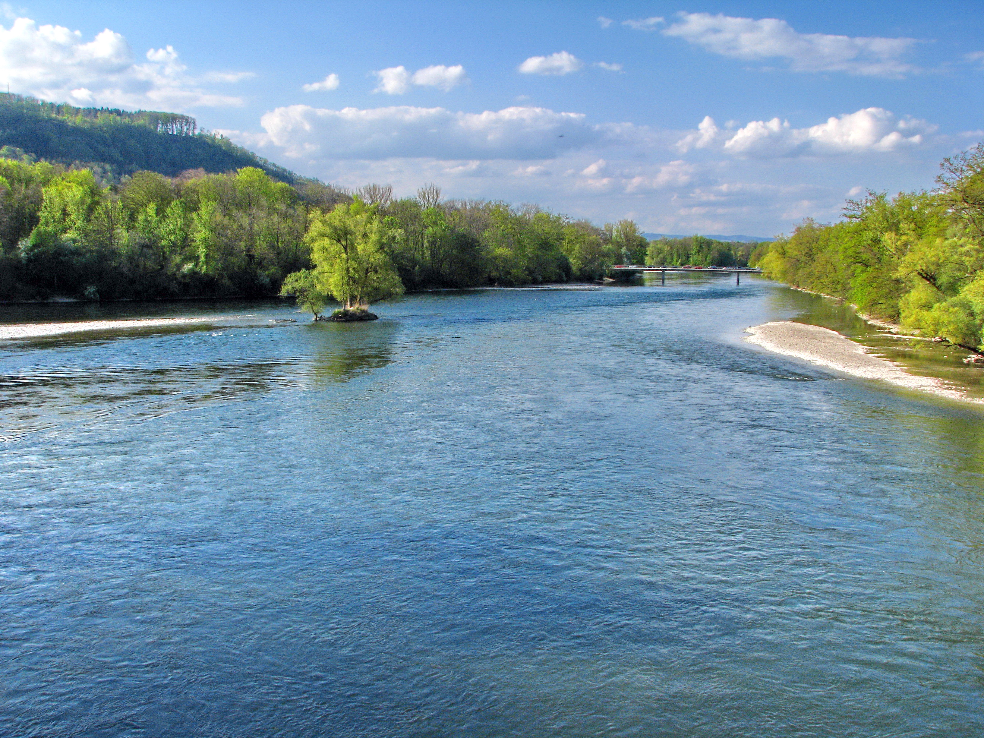 Aare and Reuss respectively Wasserschloss